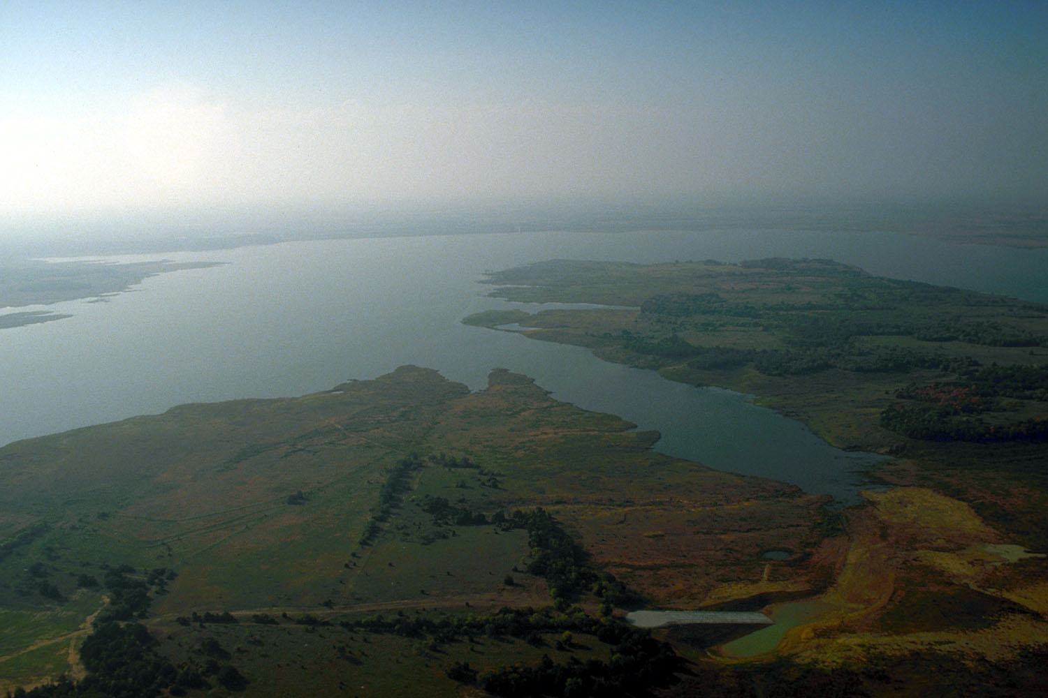 Aerial view of Ray Roberts Lake on the Elm Fork of the Trinity River in Denton County, Texas, USA. The dam, visible in the distance, is over 2 miles (3.2 km) long. The lake also backs up into Cooke and Grayson Counties. The U.S. Army Corps of Engineers constructed the dam in 1987 to provide water supply for the cities of Denton and Dallas. View is to the north. Coordinates: 33°22′11″N 97°03′23″W / 33.36972°N 97.05639°W